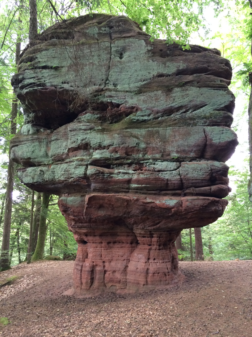 Rock formation near Pirmasens, Germany